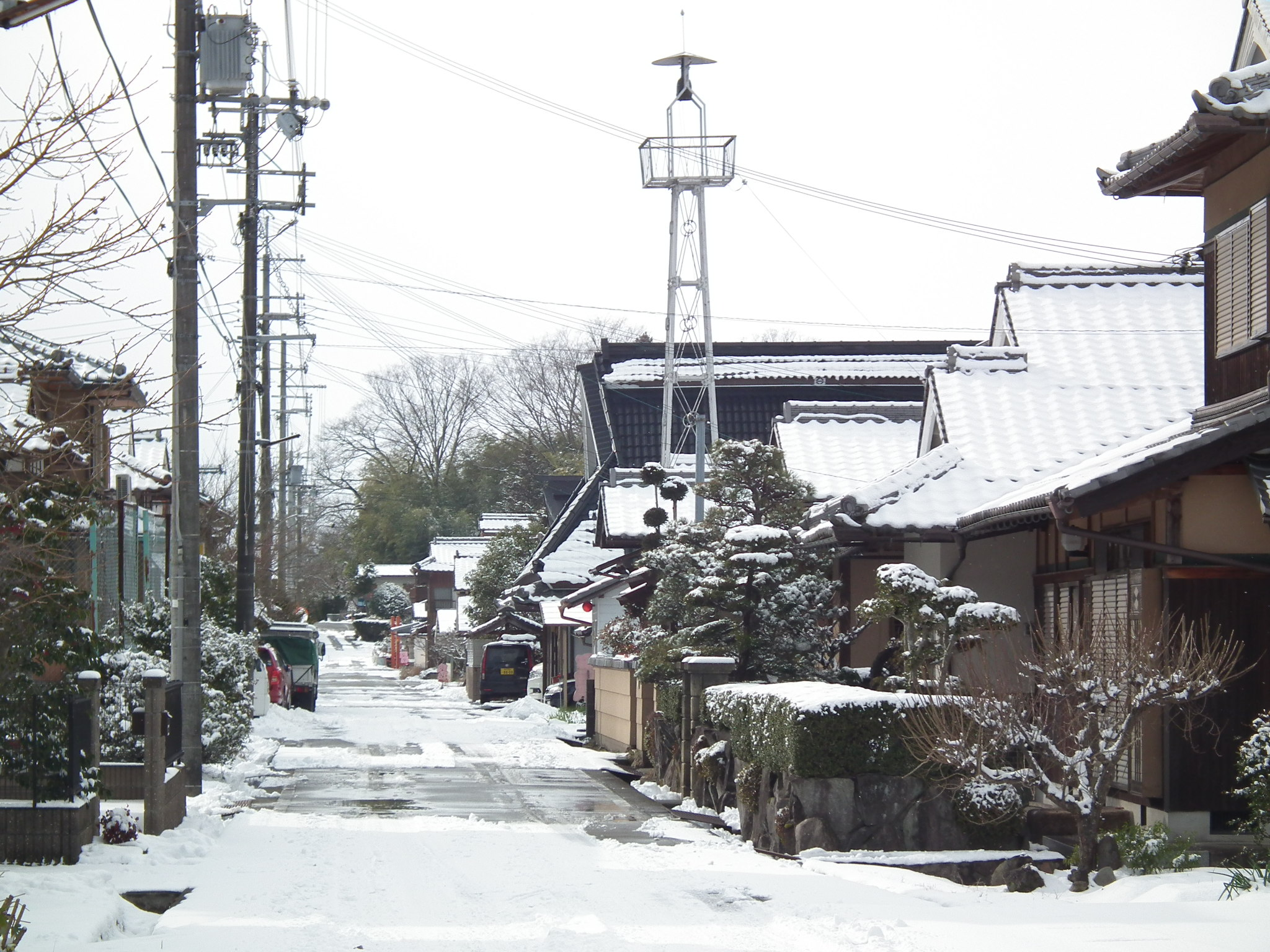 Sasayama-Yagami,San-in-kaido